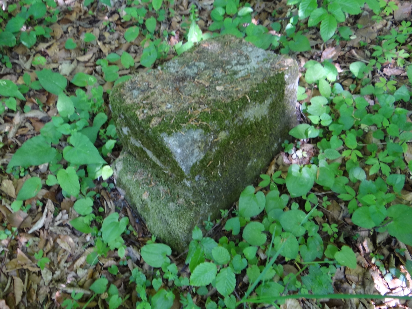 World War I Cemetery nr 142 in Ostrusza